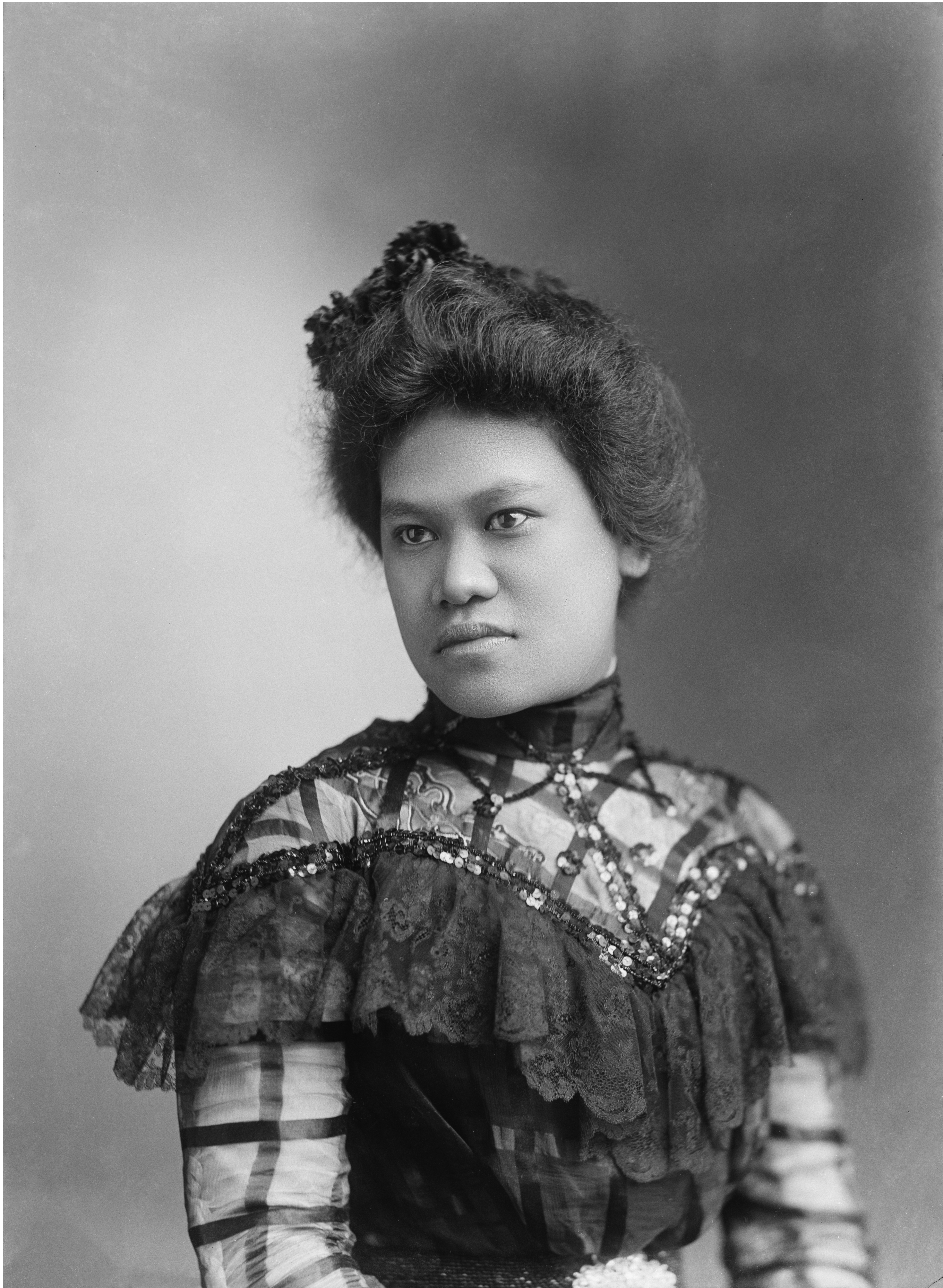 Myra Heleluhe (February 11, 1879 – May 24, 1934). Photograph by C. M. Bell.